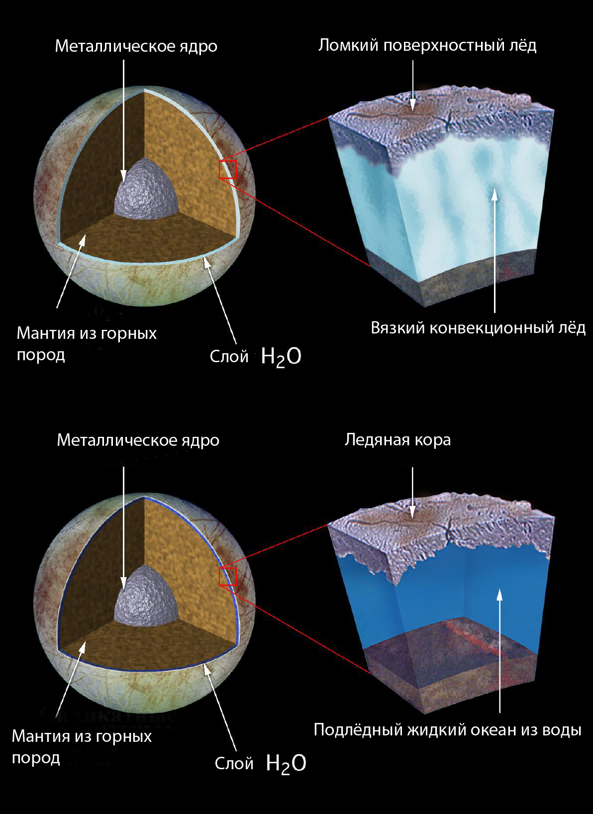 Model of Europa's subsurface structure. Original caption released with image: These artist's drawings depict two proposed models of the subsurface structure of the Jovian moon, Europa. Geologic features on the surface, imaged by the Solid State Imaging (SSI) system on NASA's Galileo spacecraft might be explained either by the existence of a warm, convecting ice layer, located several kilometers below a cold, brittle surface ice crust (top model), or by a layer of liquid water with a possible depth of more than 100 kilometers(bottom model). If a 100 kilometer (60 mile) deep ocean existed below a 15 kilometer (10 mile) thick Europan ice crust, it would be 10 times deeper than any ocean on Earth and would contain twice as much water as Earth's oceans and rivers combined. Unlike the Earth, magnesium sulfate might be a major salt component of Europa's water or ice, while the Earth's oceans are salty due to sodium chloride (common salt). While data from various instruments on the Galileo spacecraft indicate that an Europan ocean might exist, no conclusive proof has yet been found. To date Earth is the only known place in the solar system where large masses of liquid water are located close to a solid surface. Other sources are especially interesting since water is a key ingredient for the development of life as we know it.